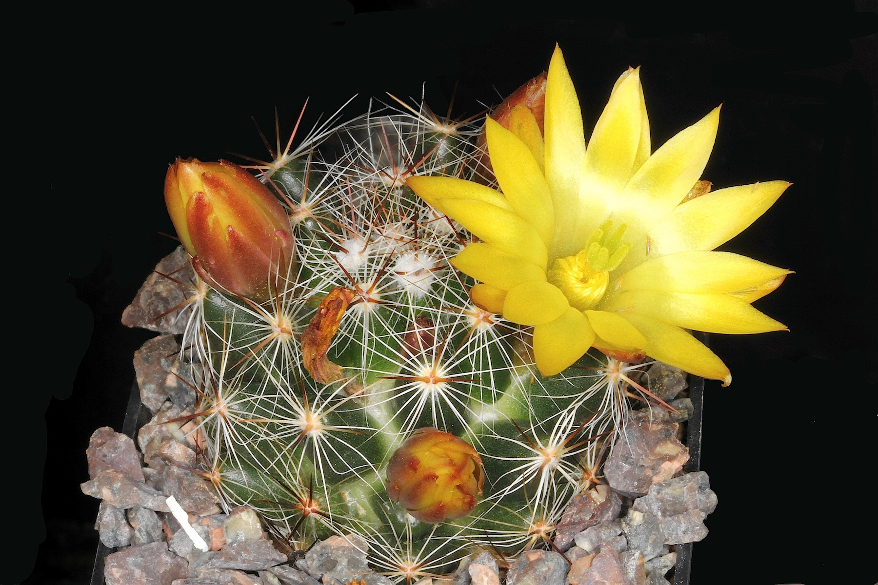 Mammillaria melaleuca